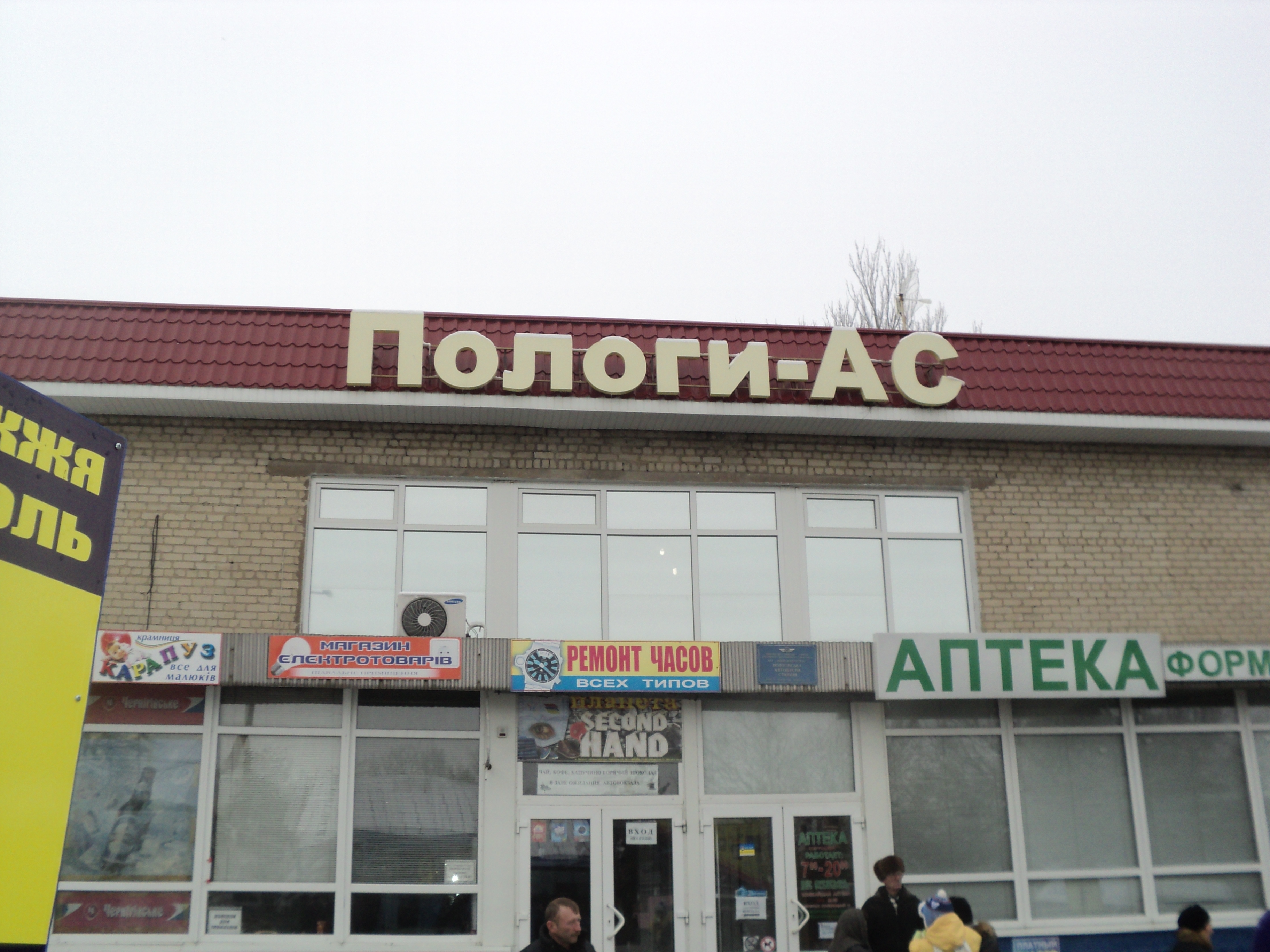 Bus station in the Polohy